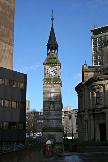 Derry's Clock Tower This clock tower was built in 1862 and was at the heart of pre-war Plymouth and a meeting place for people. It used to be said that 'Marriages may be made in heaven but in Plymouth they are arranged under Derry's Clock'. Now it sits in a quiet backwater of the city centre sandwiched between the back of the Theatre Royal on the left of the photo and another rare remnant of pre-war Plymouth, The Bank Public House which was originally a bank. Behind The Bank can be seen the Council Offices tower block.